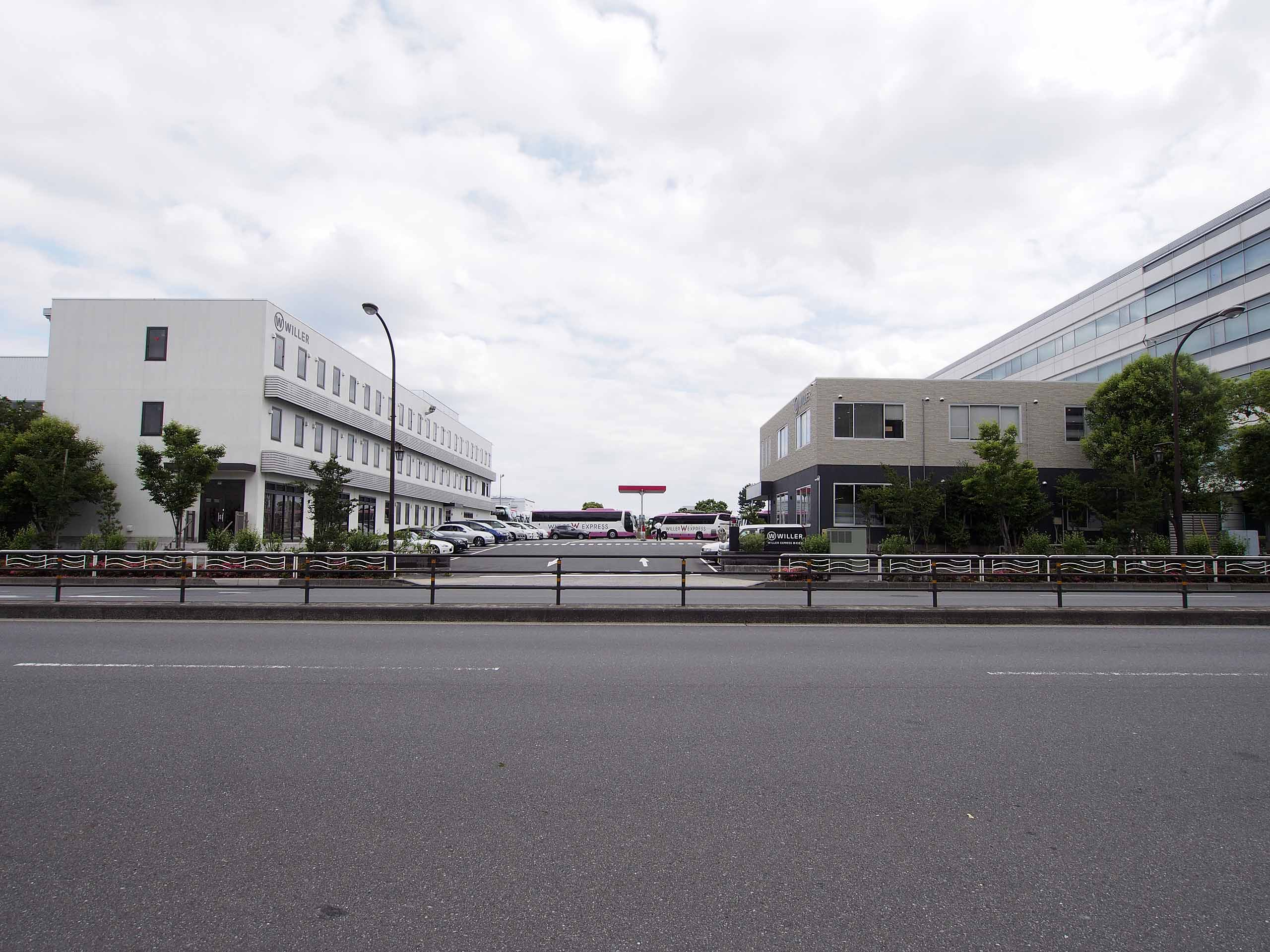 Head office of WILLER EXPRESS, at Shinkiba, Koto ward, Tokyo.